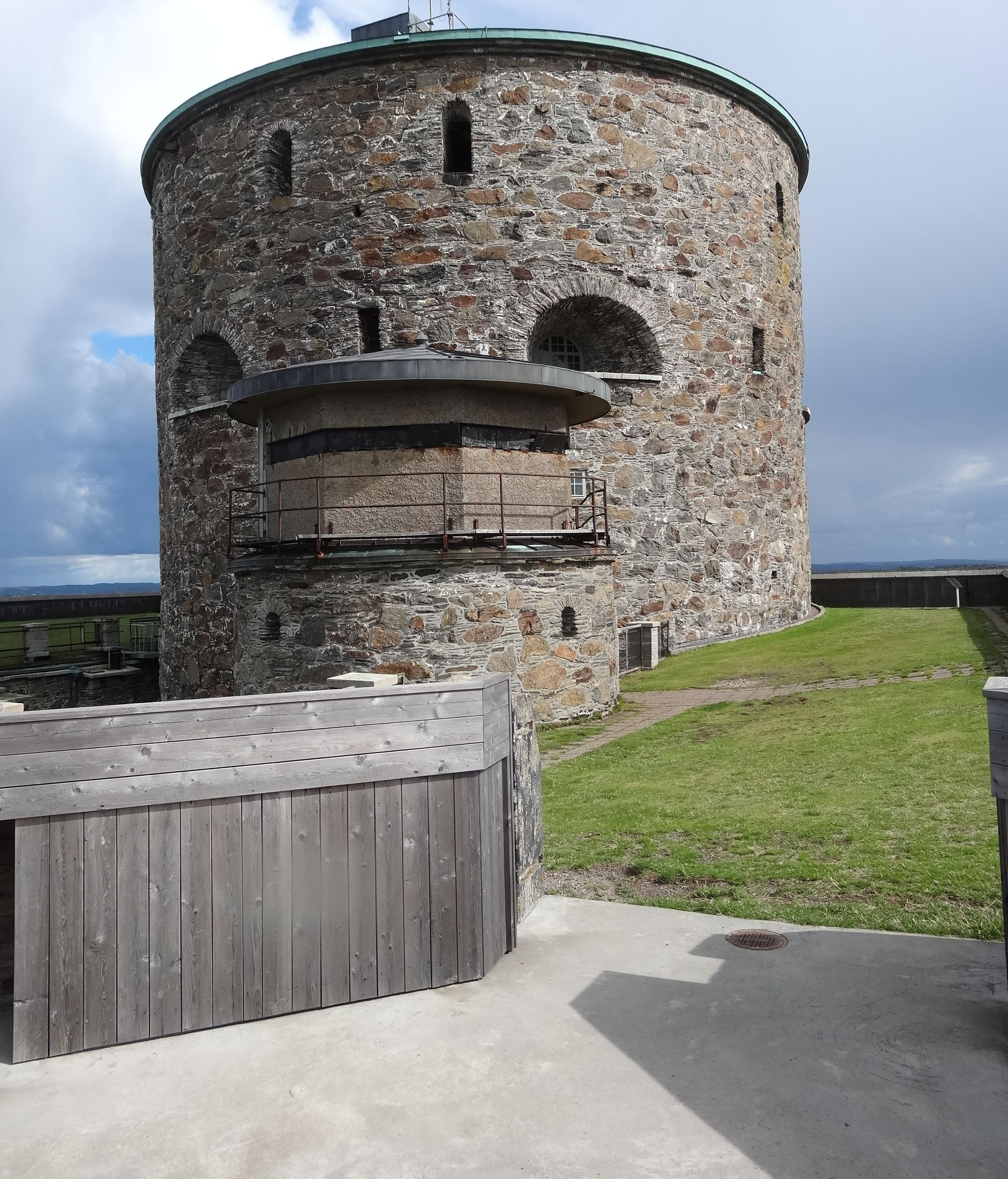 The high placed fortress tower of Karlsten in Marstrand, Sweden, has been used for surveillance and target location even during the cold war-period.